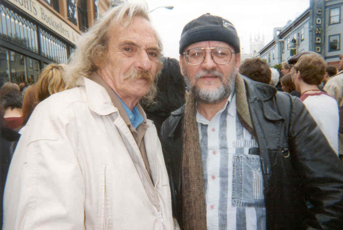 poet Jack Hirschman and Polish American poetry translator Janusz Zalewski attend the City Lights Bookstore Beat Festival, San Francisco. 2007